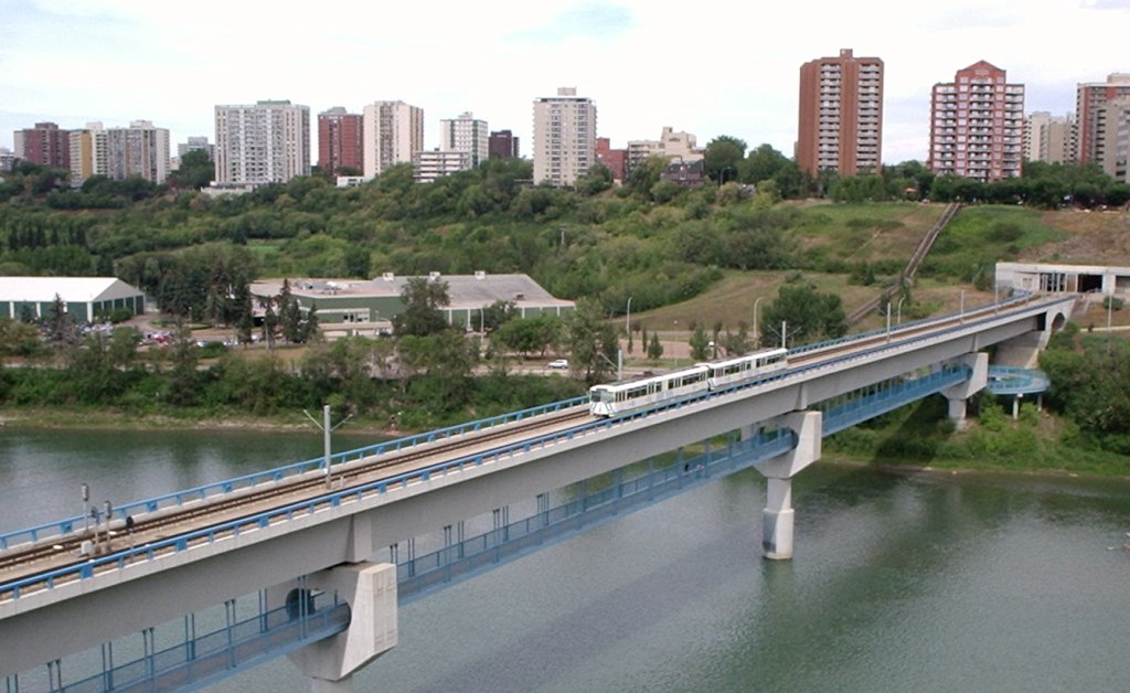 Light Rail Transit train on the Dudley B. Menzies Bridge in Edmonton, Canada